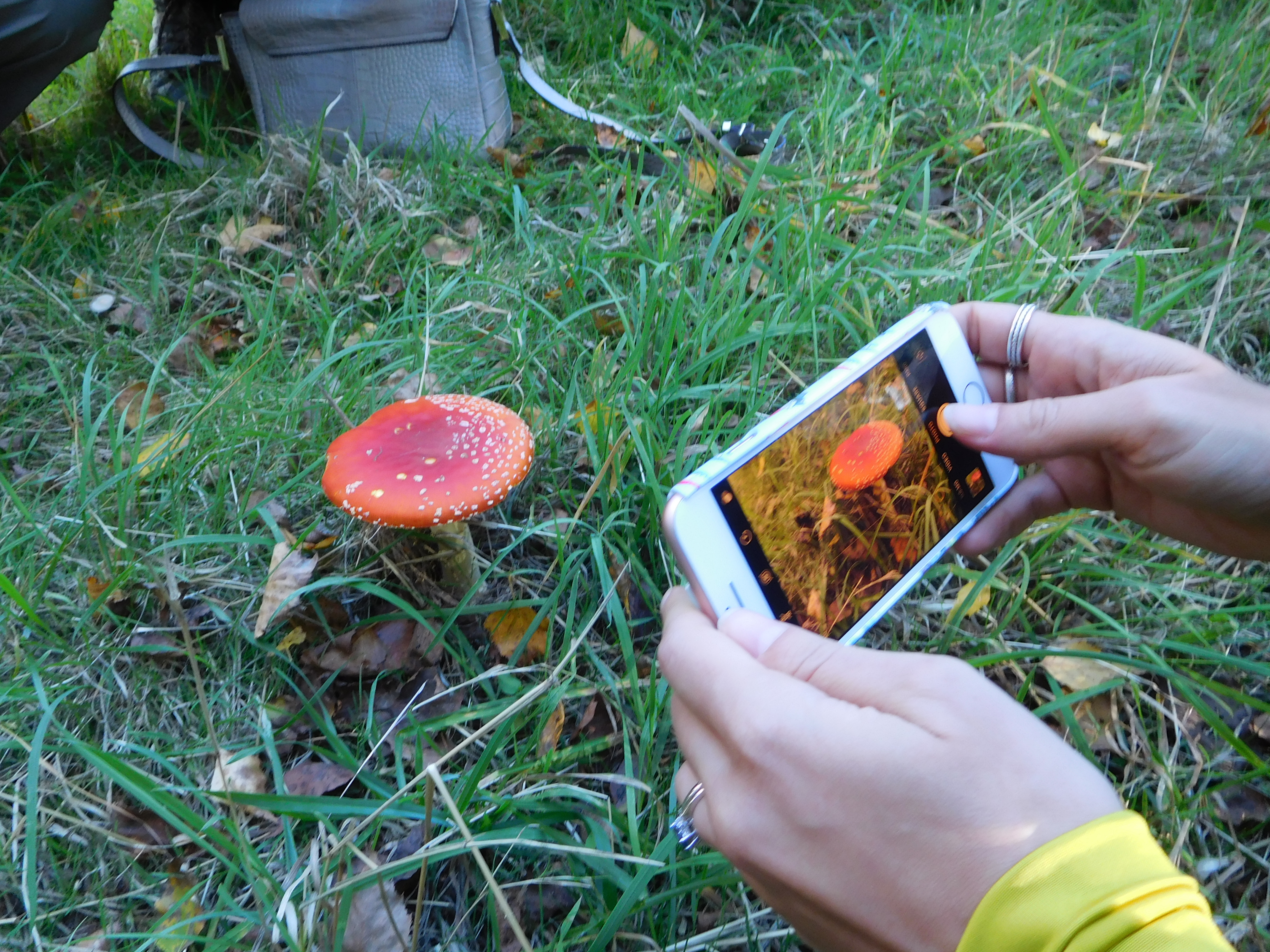 Photographing a Fly Agaric on a Fungus Foray in Gunnersbury Triangle local nature reserve